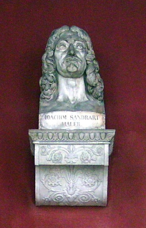 Bust of Joachim Sandrart at Ruhmeshalle ("Hall of fame"), München, Germany. Picture taken by myself: Dominik Hundhammer, München, 27 March 2006.